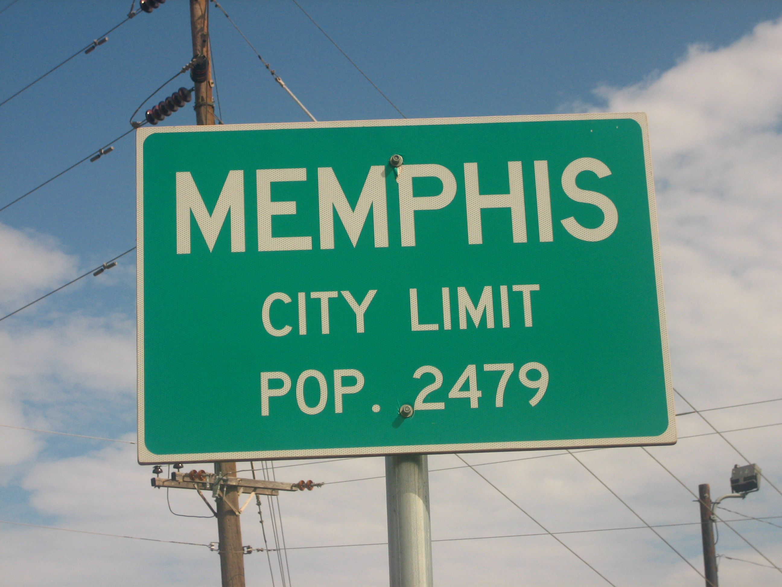 Memphis, Texas city limit/population sign, heading southeast on Boykin Drive (U.S. Route 287) at Peach Tree Street on the northwest side of town